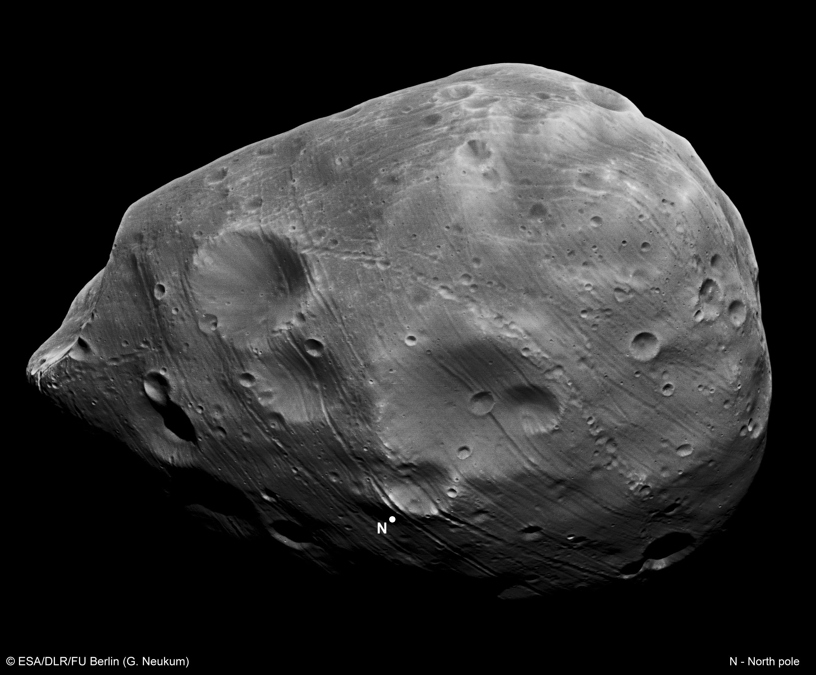 This image, taken by the High Resolution Stereo Camera (HRSC) on board ESA’s Mars Express spacecraft, is one of the highest-resolution pictures so far of the Martian moon Phobos. Phobos is seen here by the HRSC nadir channel during Mars Express orbit 7926 on 10 March 2010. The image was enhanced photometrically to better bring out features in the less-illuminated part and has a resolution of about 9 m/pixel. Launched on 2 June 2003, Mars Express was the first fully European mission to any planet. It is an exciting challenge for European technology and is playing a key role in an international exploration programme spanning two decades. For Credit: ESA/DLR/FU Berlin (G. Neukum), CC BY-SA 3.0 IGO Copyright Notice: This work is licenced under the Creative Commons Attribution-ShareAlike 3.0 IGO (CC BY-SA 3.0 IGO) licence. The user is allowed to reproduce, distribute, adapt, translate and publicly perform this publication, without explicit permission, provided that the content is accompanied by an acknowledgement that the source is credited as 'ESA/DLR/FU Berlin’, a direct link to the licence text is provided and that it is clearly indicated if changes were made to the original content. Adaptation/translation/derivatives must be distributed under the same licence terms as this publication. To view a copy of this license, please visit